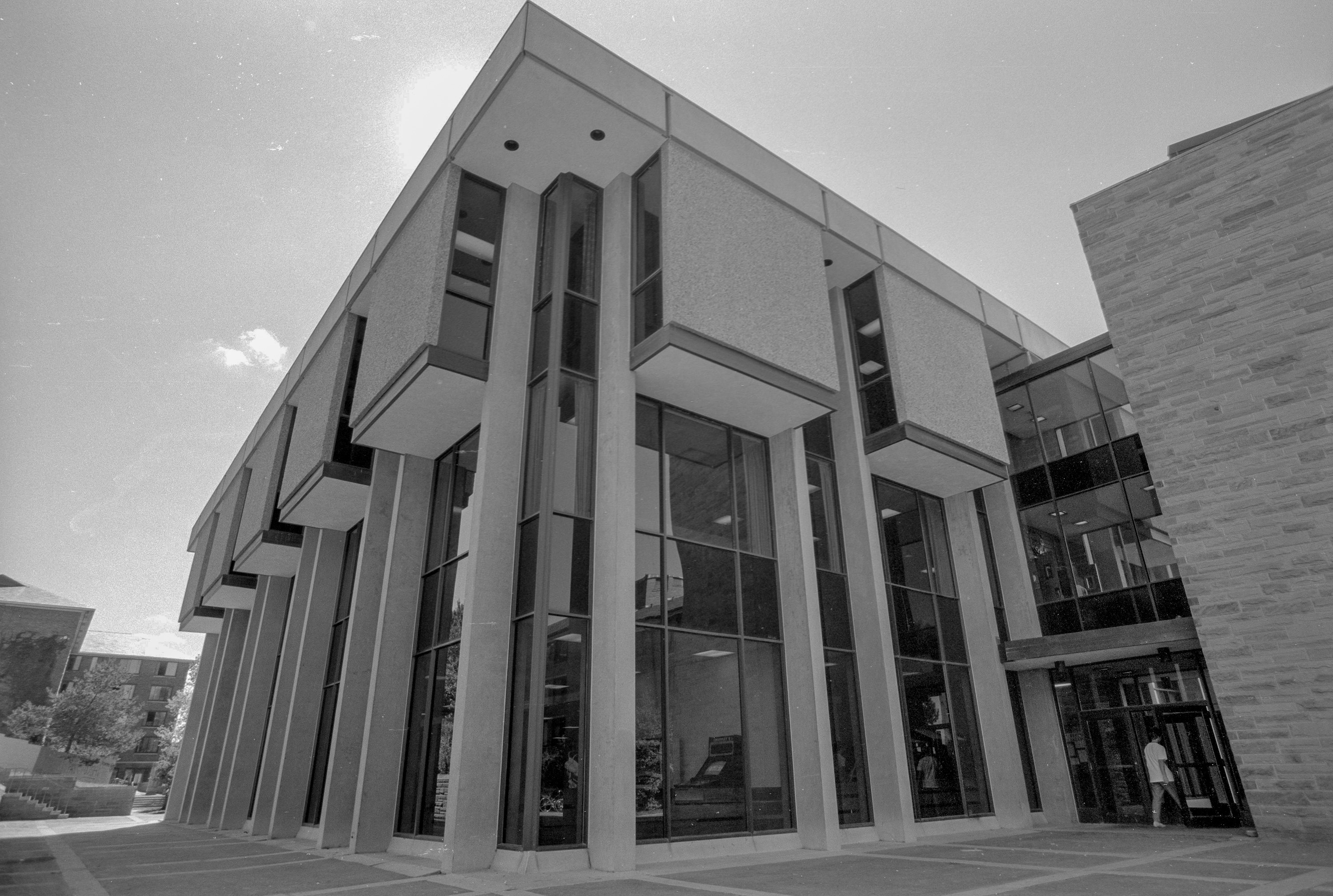 Rear entrance to Noyes Community Center, Cornell University (demolished). Taken in 1987.